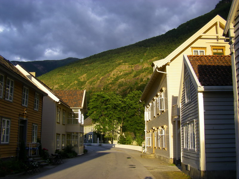 Laerdal, Oyragata/Norway